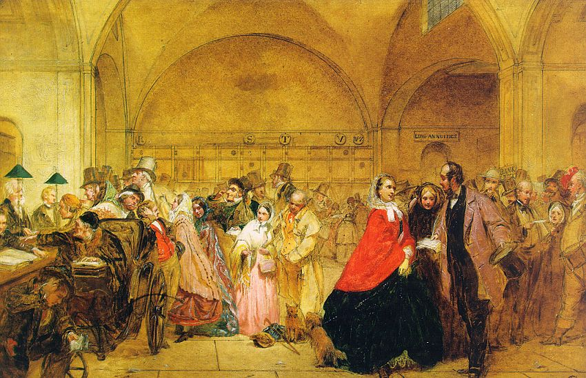 Divident Day at the Bank of England